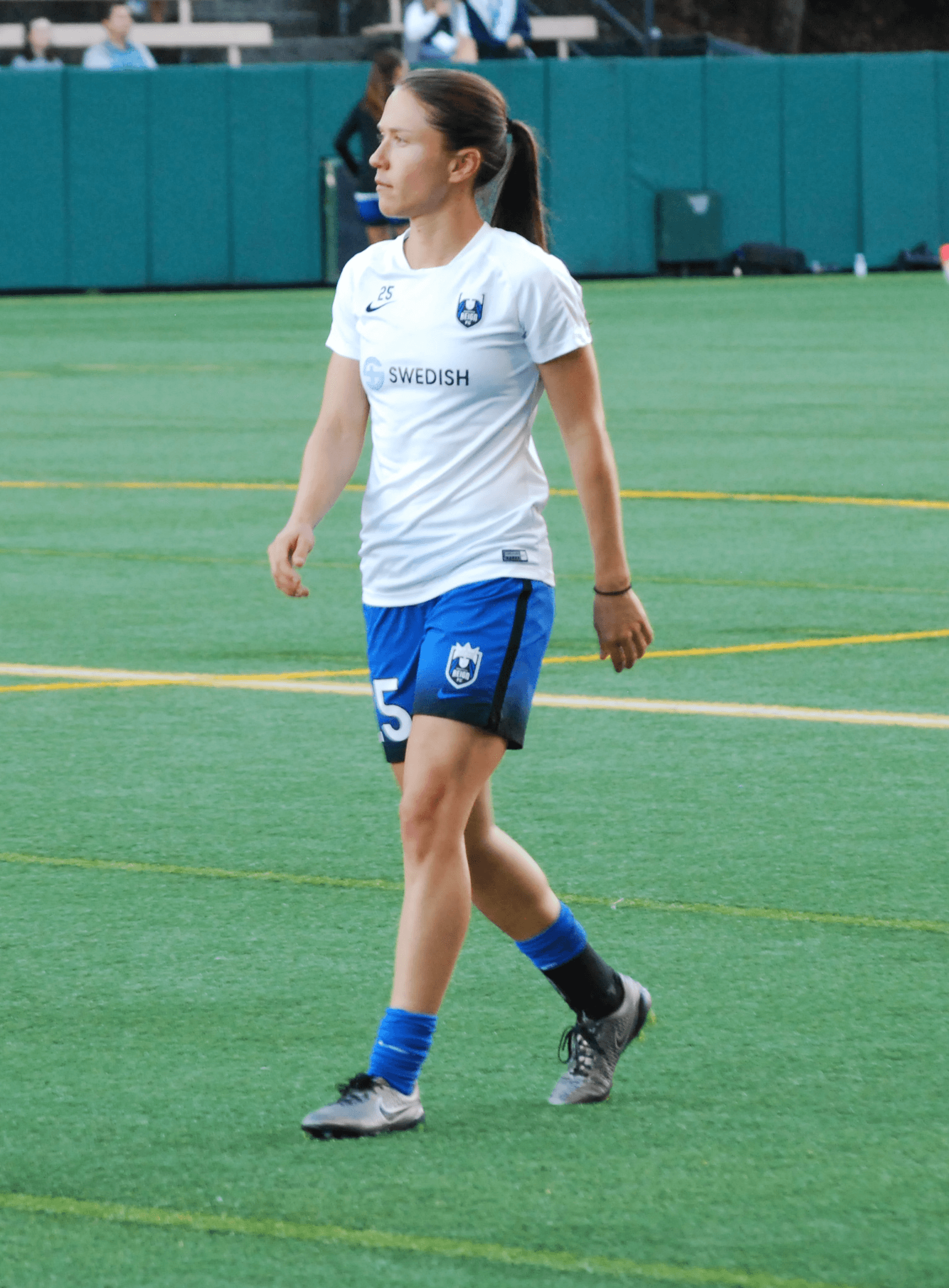 Kiersten Dallstream, Seattle Reign FC vs Washington Spirit, September 11, 2016 at Memorial Stadium